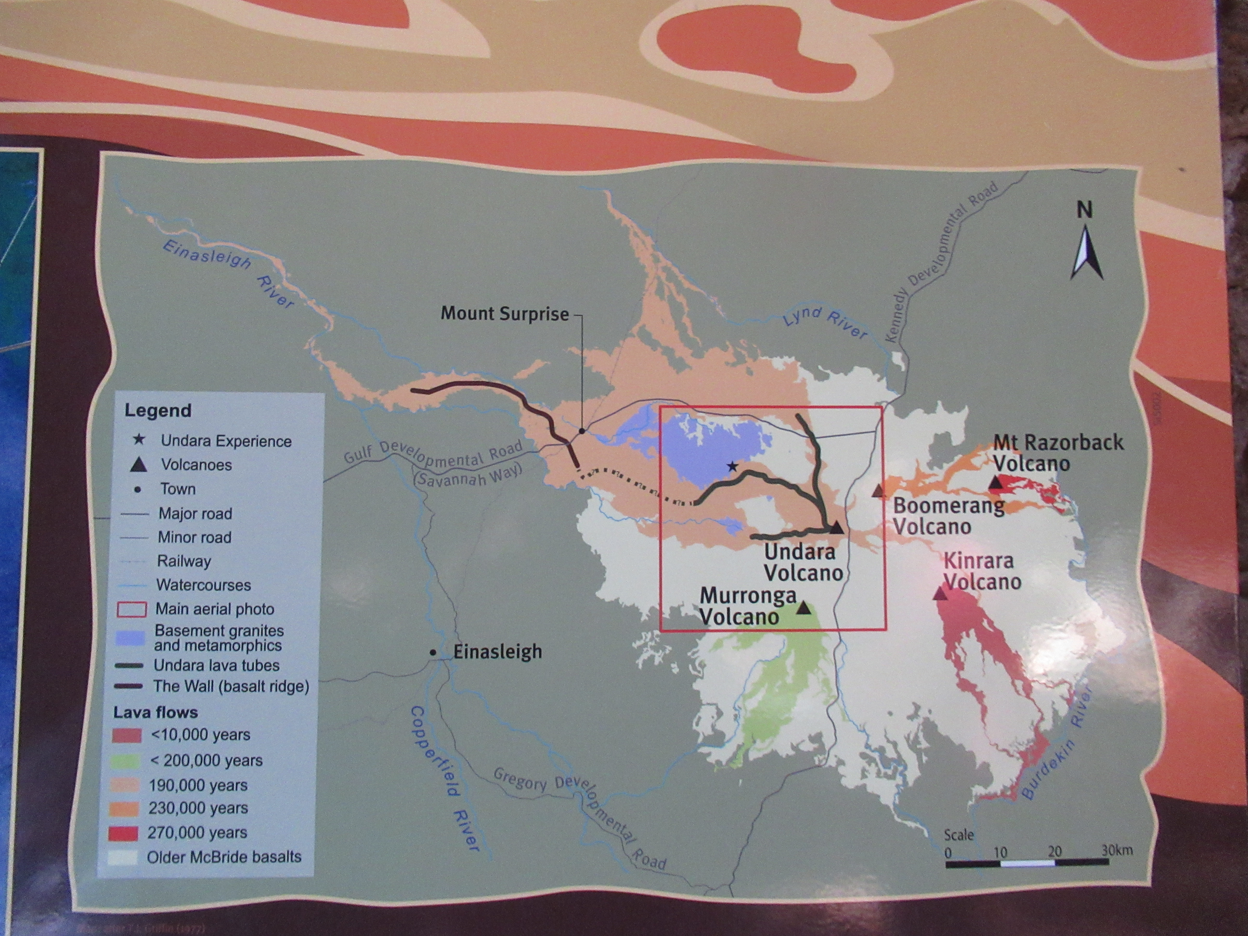 Geological sketch map of the Undara National Park formations. The area is situated within the McBride volcanic province and contains 164 volcanoes, vents and cones. The lava tubes are regarded amongst the largest and longest on the planet. A lava tube is a type of lava cave formed when a low-viscosity lava flow develops a continuous and hard crust, which thickens and forms a roof above the still-flowing lava stream. The tubes at Undara are thought to have followed water courses and other natural depressions. The word Undara is aboriginal in origin and means a long way. Undara National Park, Queensland, Australia